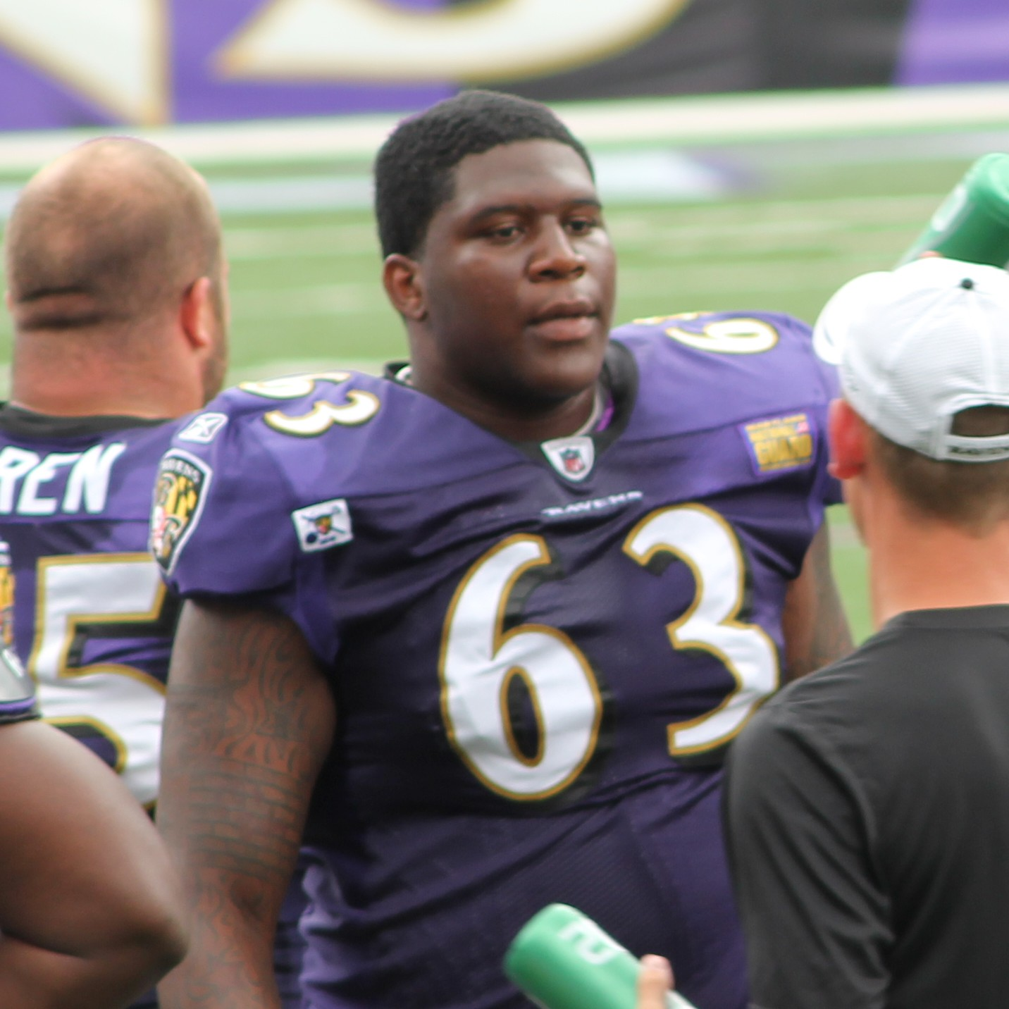 Andre Ramsey Practice at M&T Bank Stadium August 2011